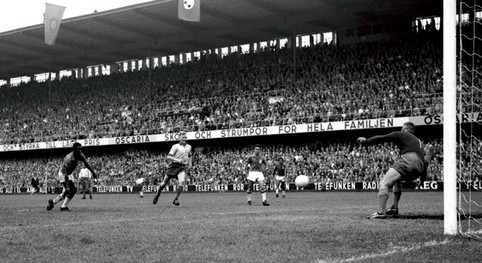 Pelé scoring a goal in the 1958 World Cup final.